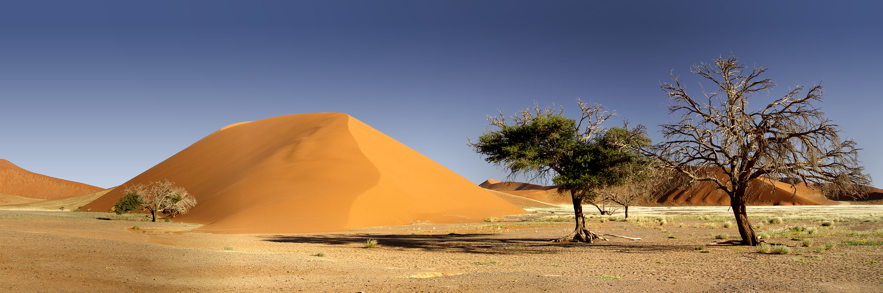 I cheated a little on this one and photoshopped the sky with custom gradients (one linear and a couple of radials around the trees) because the stitch just didn't work. View large.